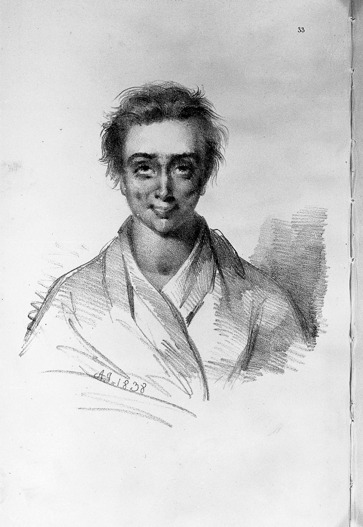 Photograph showing a female psychiatric patient, "erotomania". Iconographic Collections Keywords: Insanity